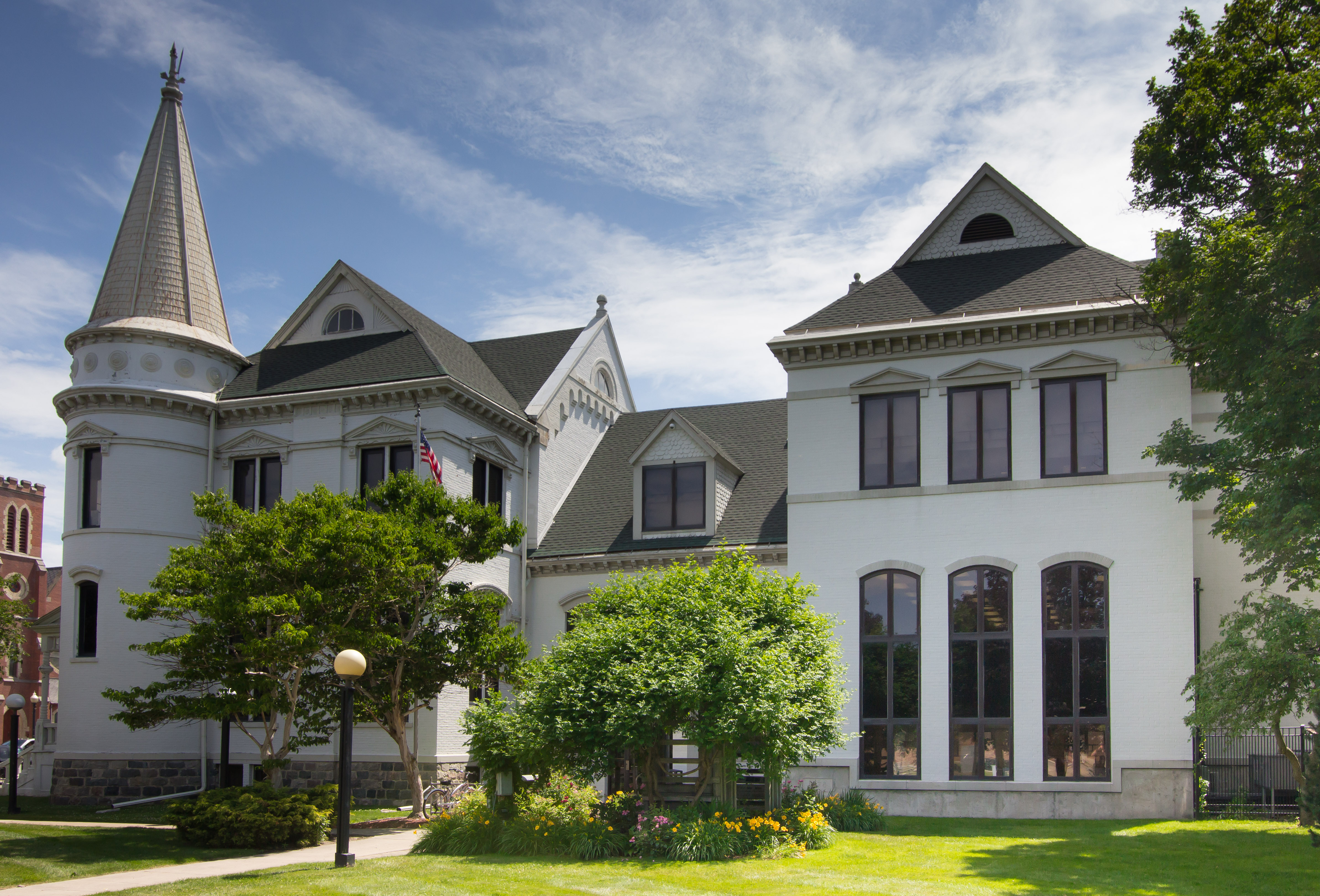 Edwin R. Clarke Library